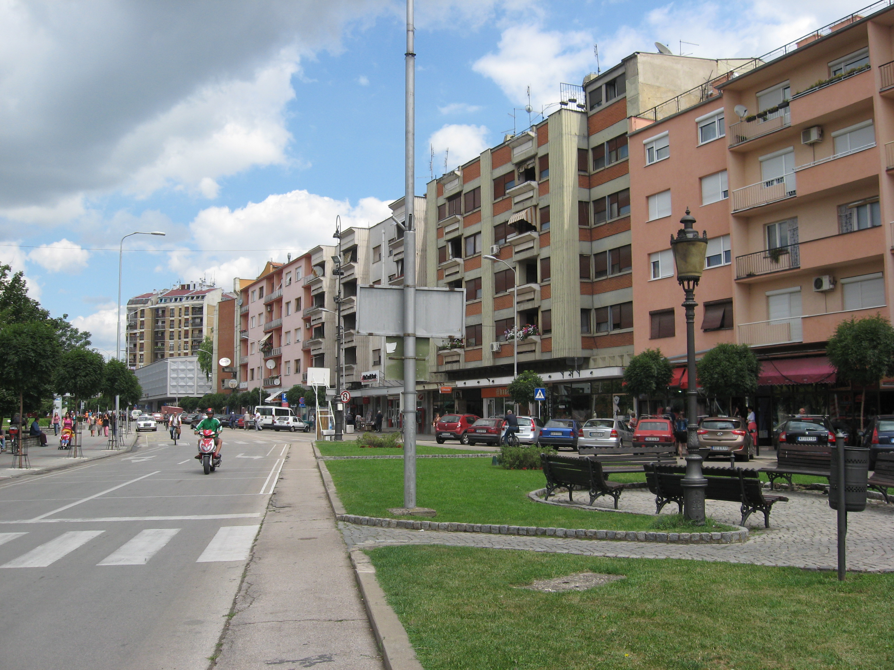 Paraćin centre